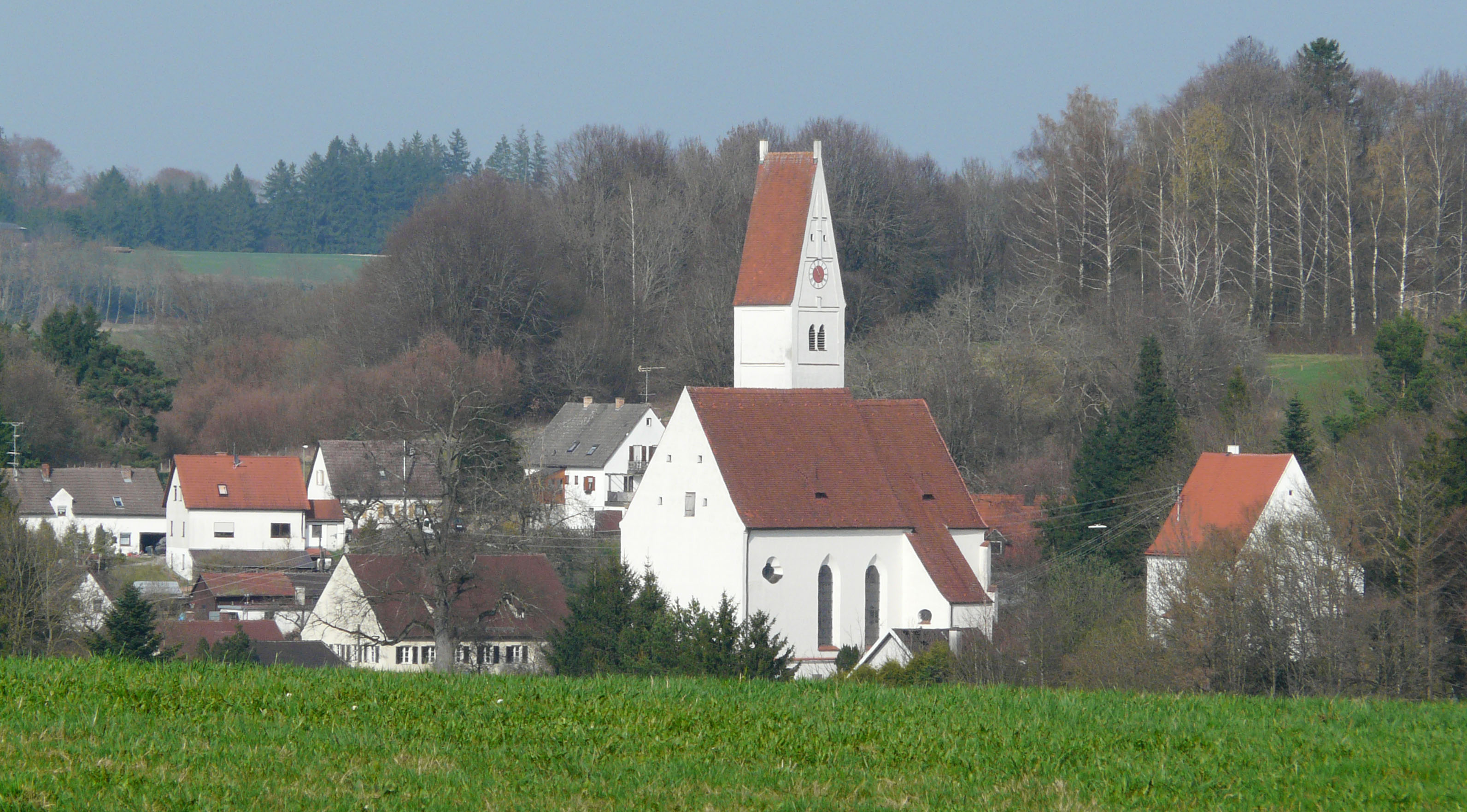 Mickhausen von Südwesten